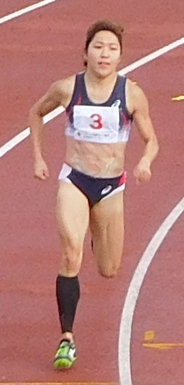 Sayaka Fujisawa is running at the 74th National Sports Festival of Japan.